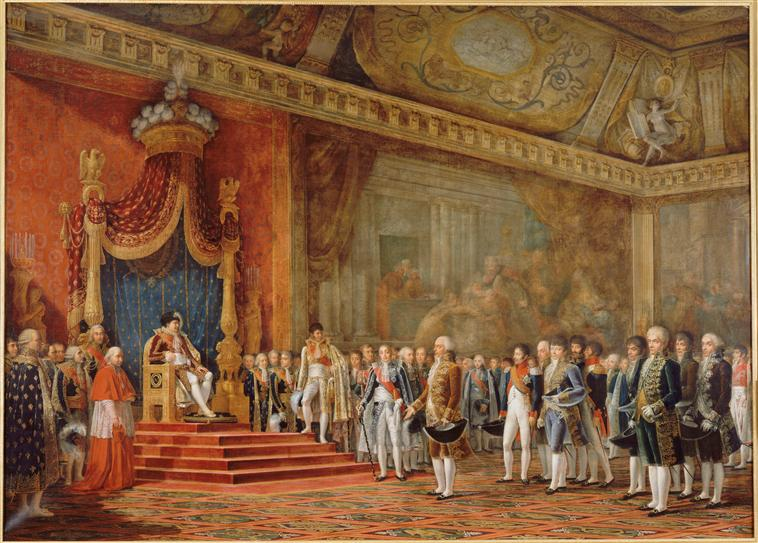 La Députation du sénat romain offrant ses hommages à l'empereur Napoléon Ier